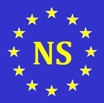 This is the logo of the project named "Novoslovienskij jazyk".